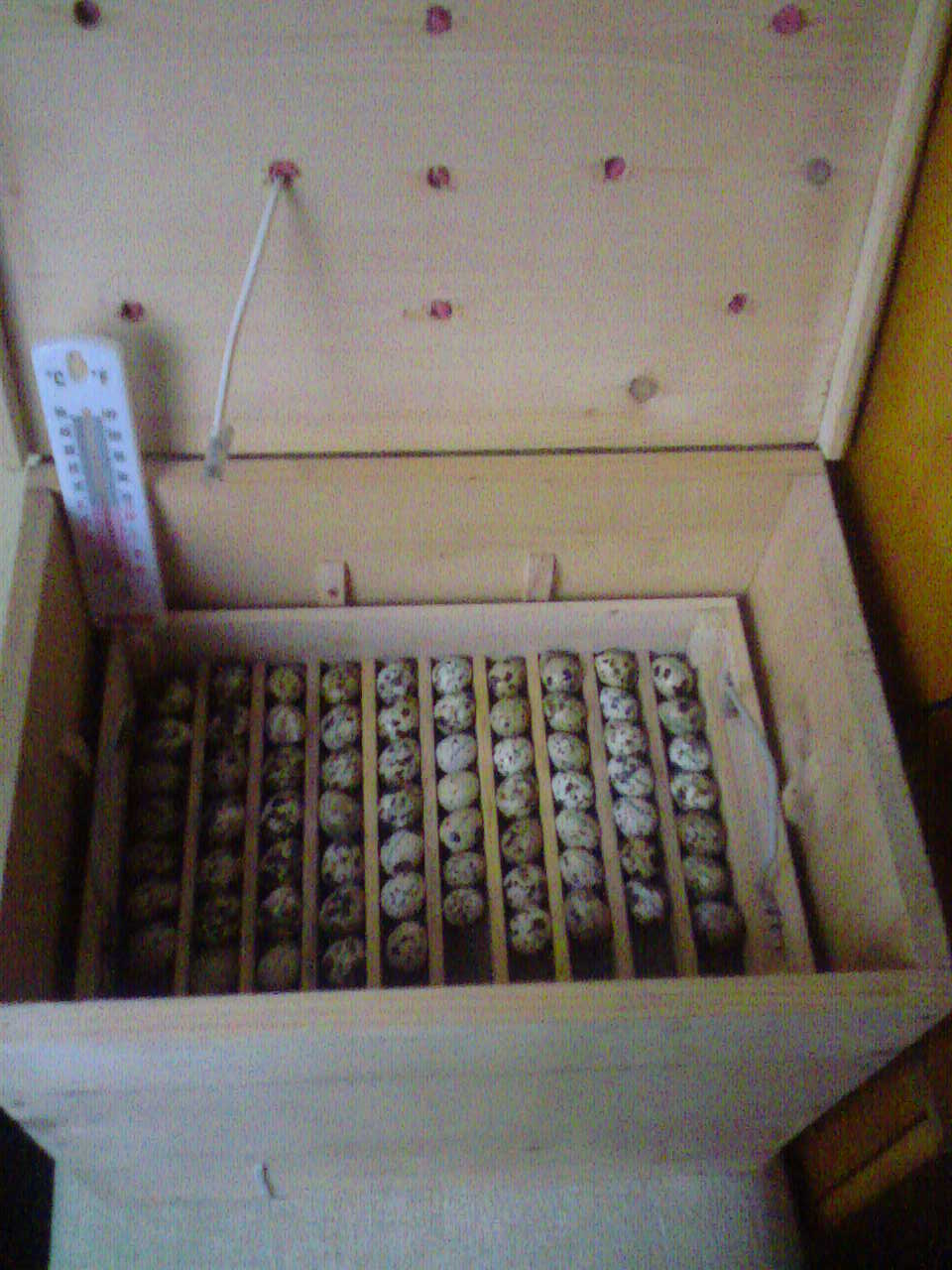 Egg incubation